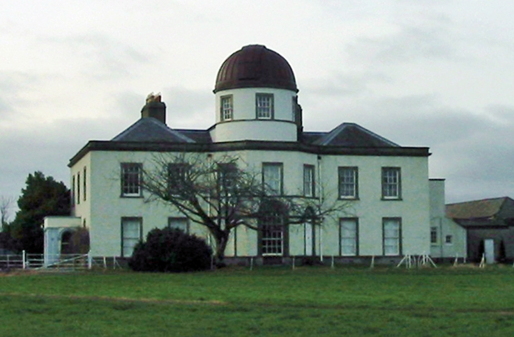 Photograph of Dunsink Observatory, in Dublin, Ireland. Taken by David Malone, 22 December 2002.